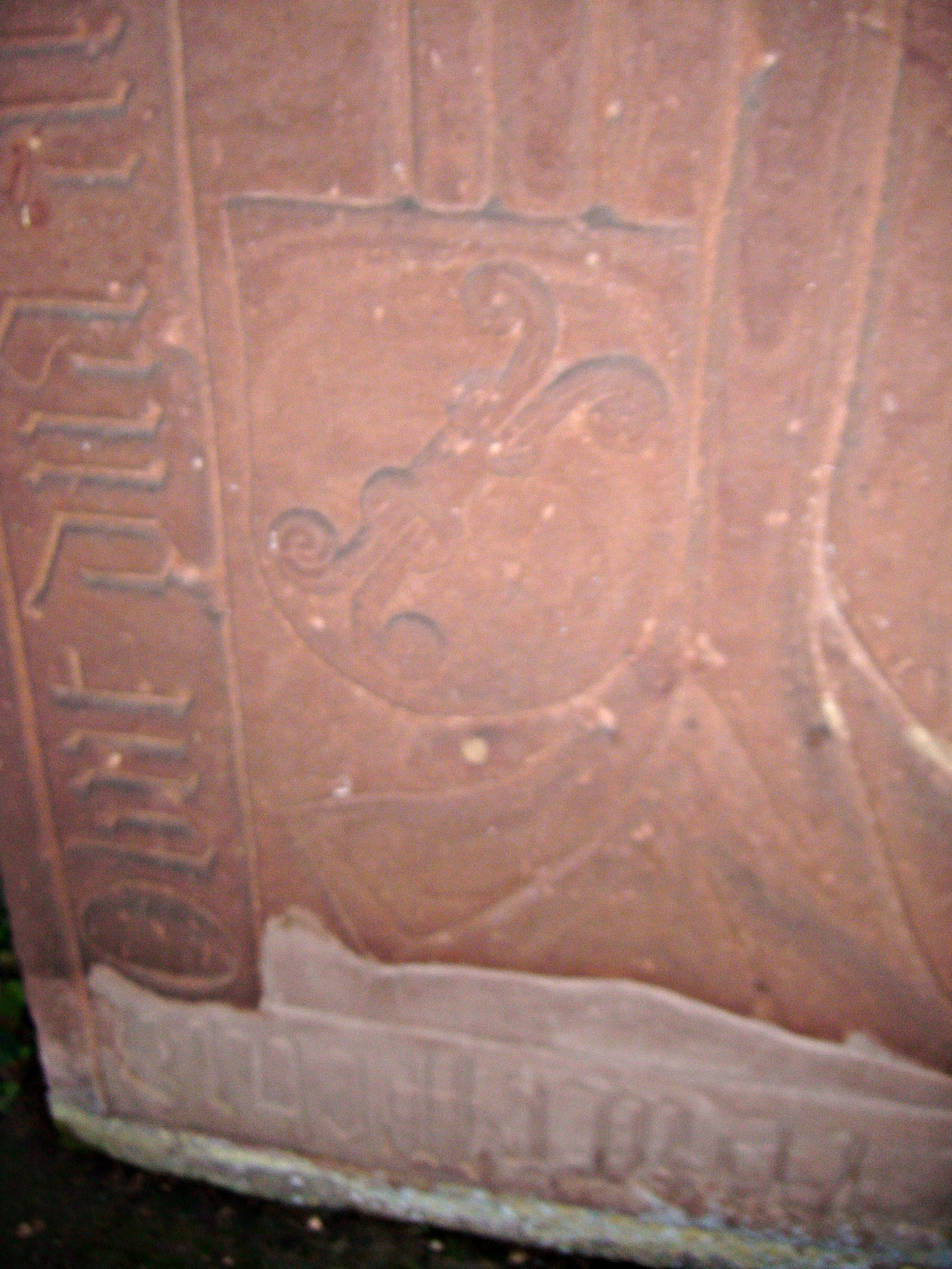 Wappen der Herren von Lustadt, Detail von der Grabplatte der Äbtissin Anna von Lustadt (+ 1485), Kloster Rosenthal, Pfalz